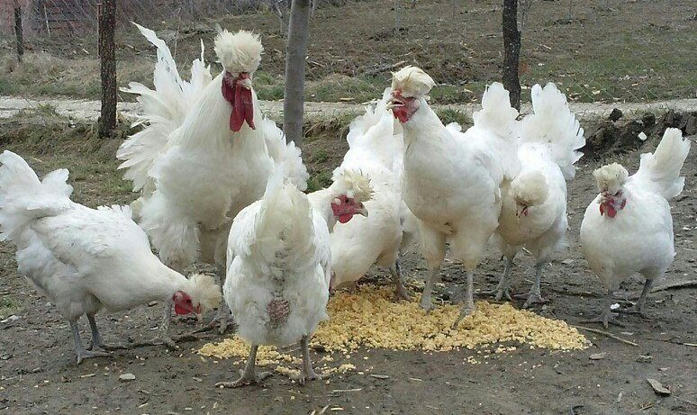 A group of white Sanjak Crowers.